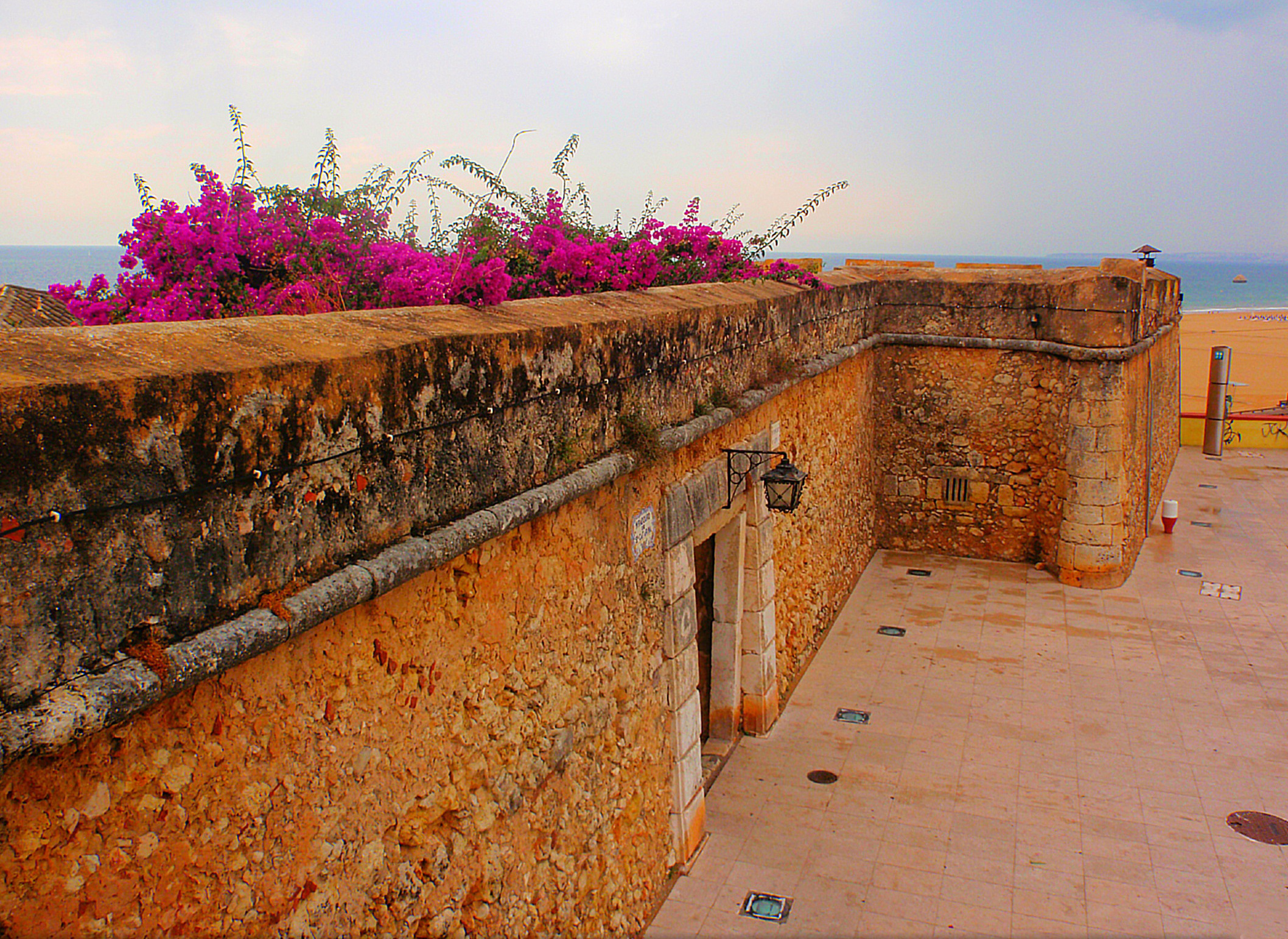 Entrance to the Fortress of Santa Catarina, Portimão, Algarve, Portugal